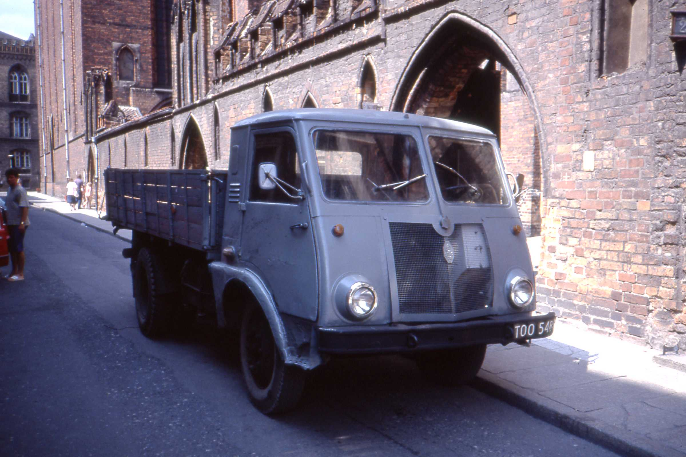 Star 25 truck in Toruń, Poland. Registered in Toruń.